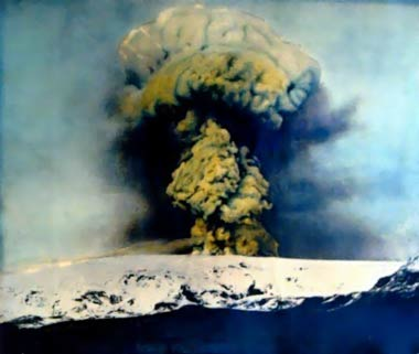 Photograph of Katla volcano erupting through Mýrdalsjökull ice cap in 1918 Date1918SourceICELANDIC GLACIAL LANDSCAPESAuthorPublic Domain